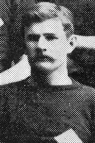 The former South African rugby union player Bob Snedden.